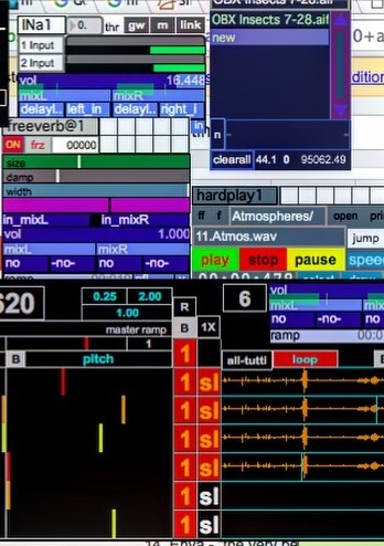 screen shot of Cycling '74 Max (software) during a 2015 $uccessor session (2015)